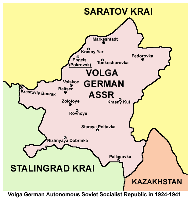 This is an map of the former Volga German Autonomous Soviet Socialist Republic (Volga German ASSR) that existed from 1924 to 1941. It shows the location of major settlements, including the capital, Engels (Pokrovsk).